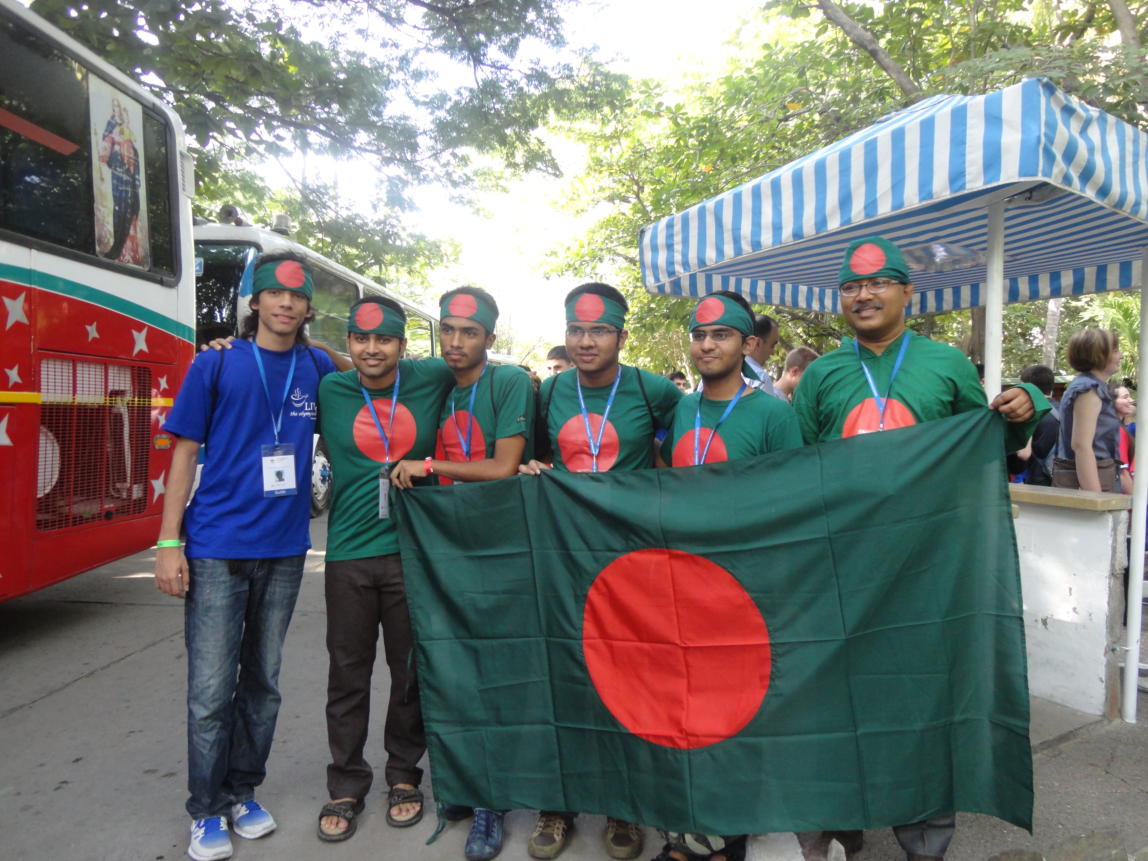 Bangladesh every year send a Math team to join International Math Olympiad (IMO). This year IMO held Colombia. In this picture Bangladesh IMO team with team couch.